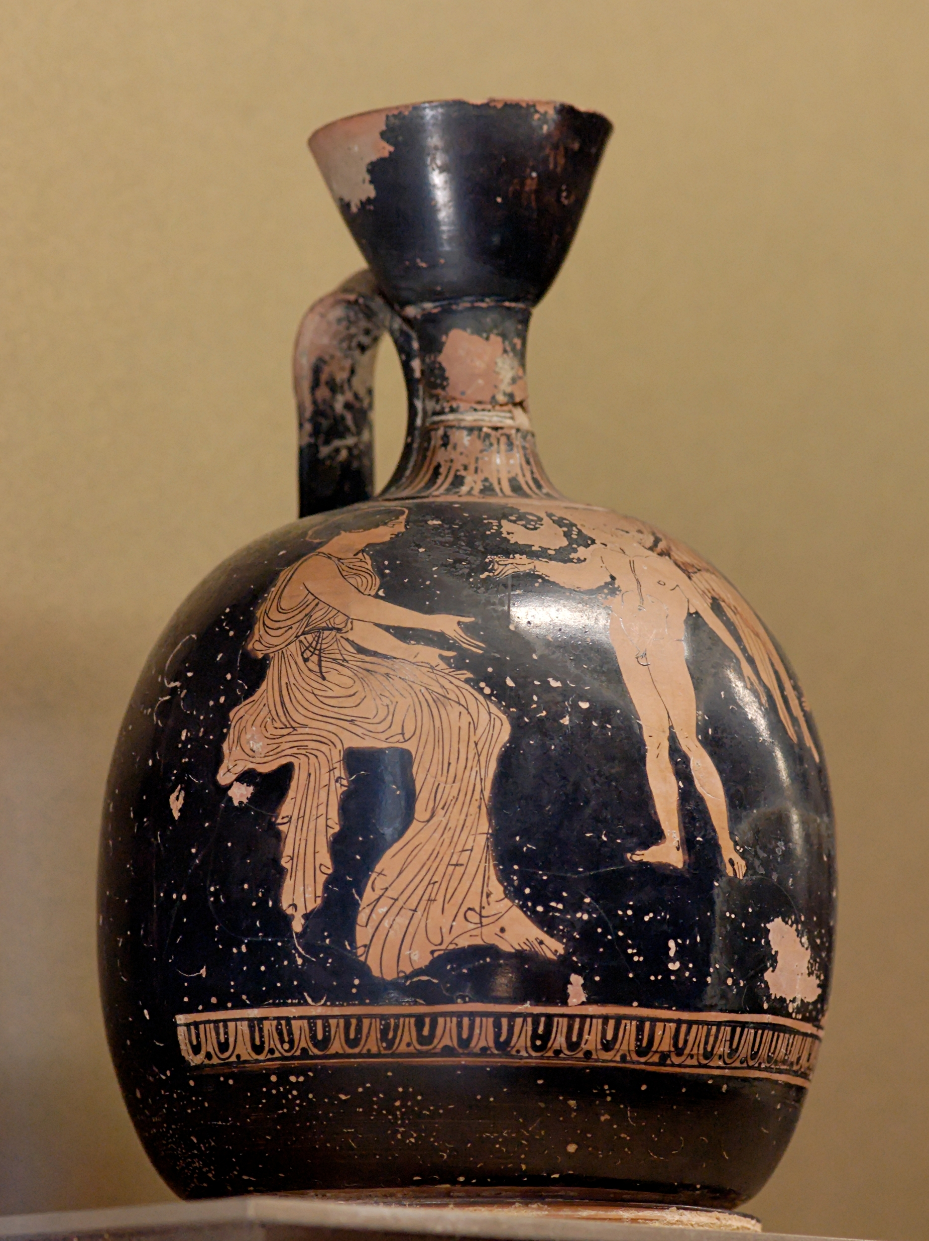 Women and Eros. Attic red-figure squat lekythos, ca. 410–400 BC.